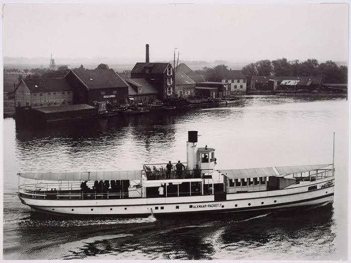 The Alkmaar Packet 7 en route on the Zaan river in Wormer